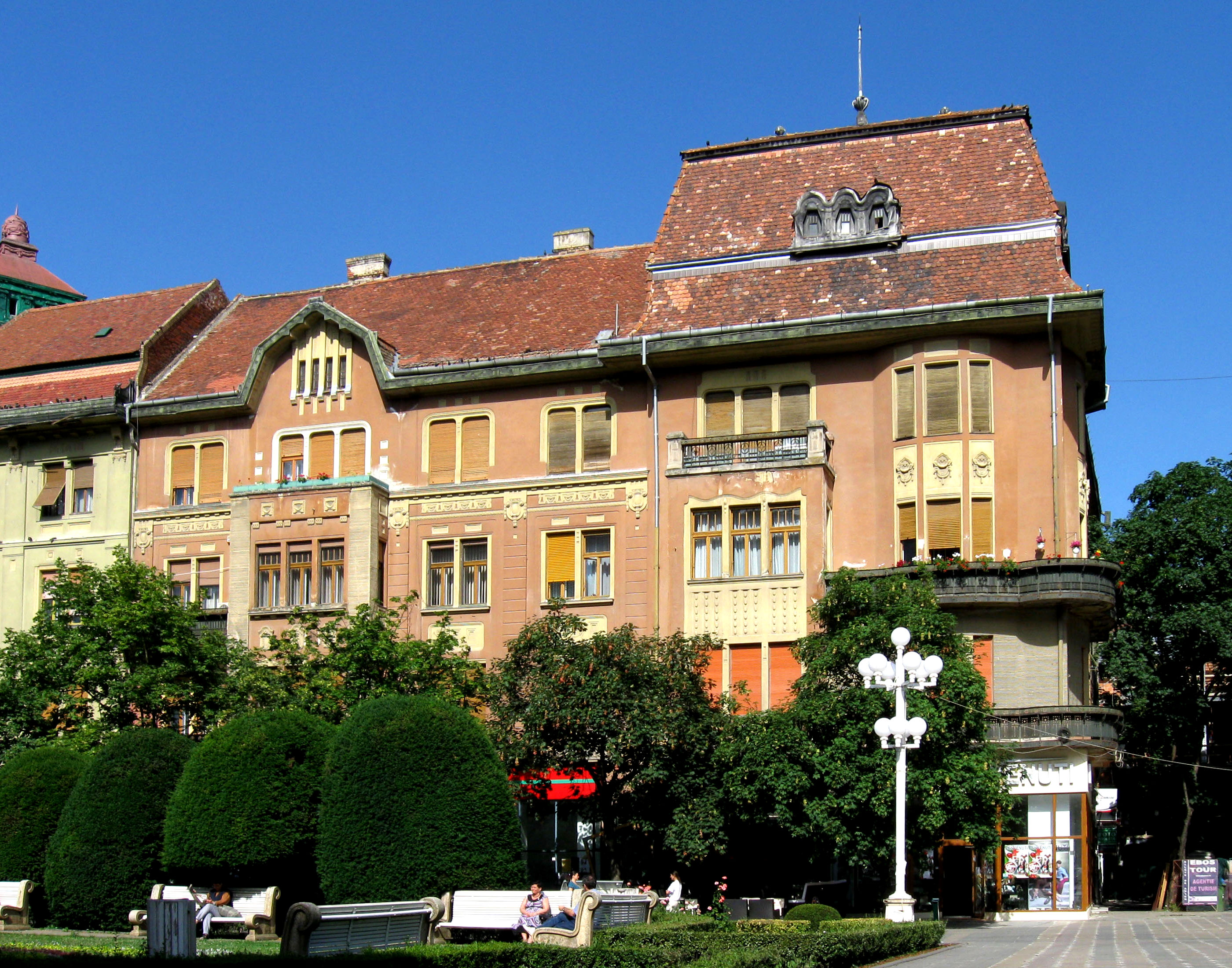 Hilt & Vogel Palace, Timisoara, Romania. Built 1912-1913, architect Székely László (1877-1934)